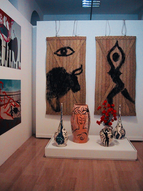 Museum of Contemporary Art in Seville, Stefan Szczesny